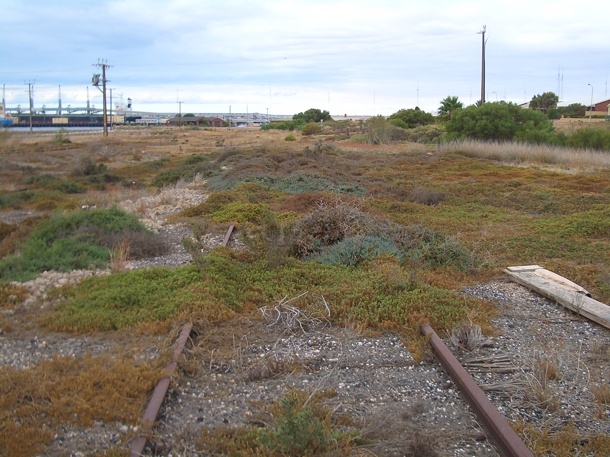 Overgrown abandoned rail tracks (Irish gauge) near the port and grain elevators in Wallaroo, Yorke Peninsula, South Australia